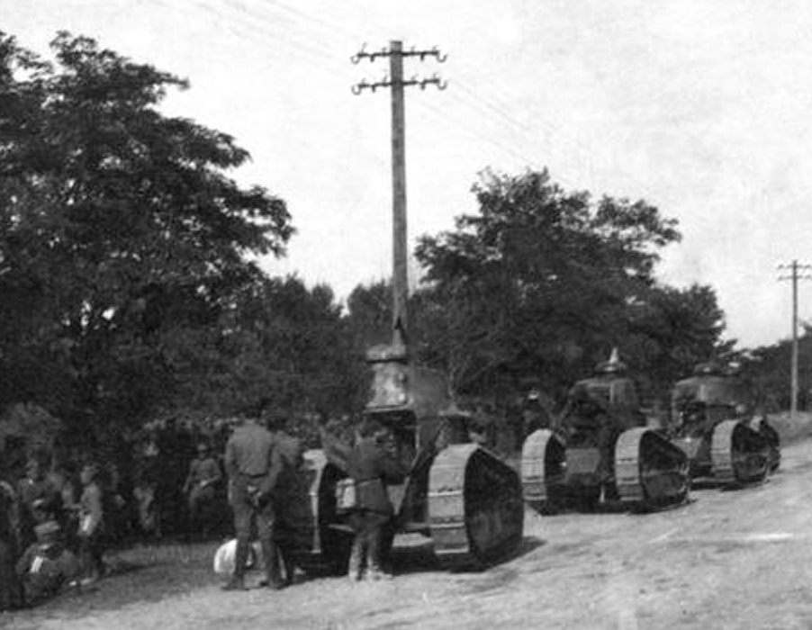 Column of Polish FT-17 tanks on the road near Lwów, c.1919